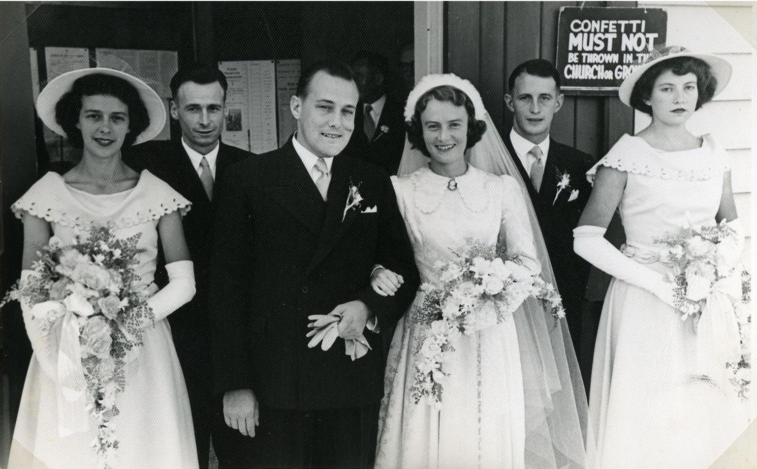 Wedding of the Muldoons on 17 March 1951.